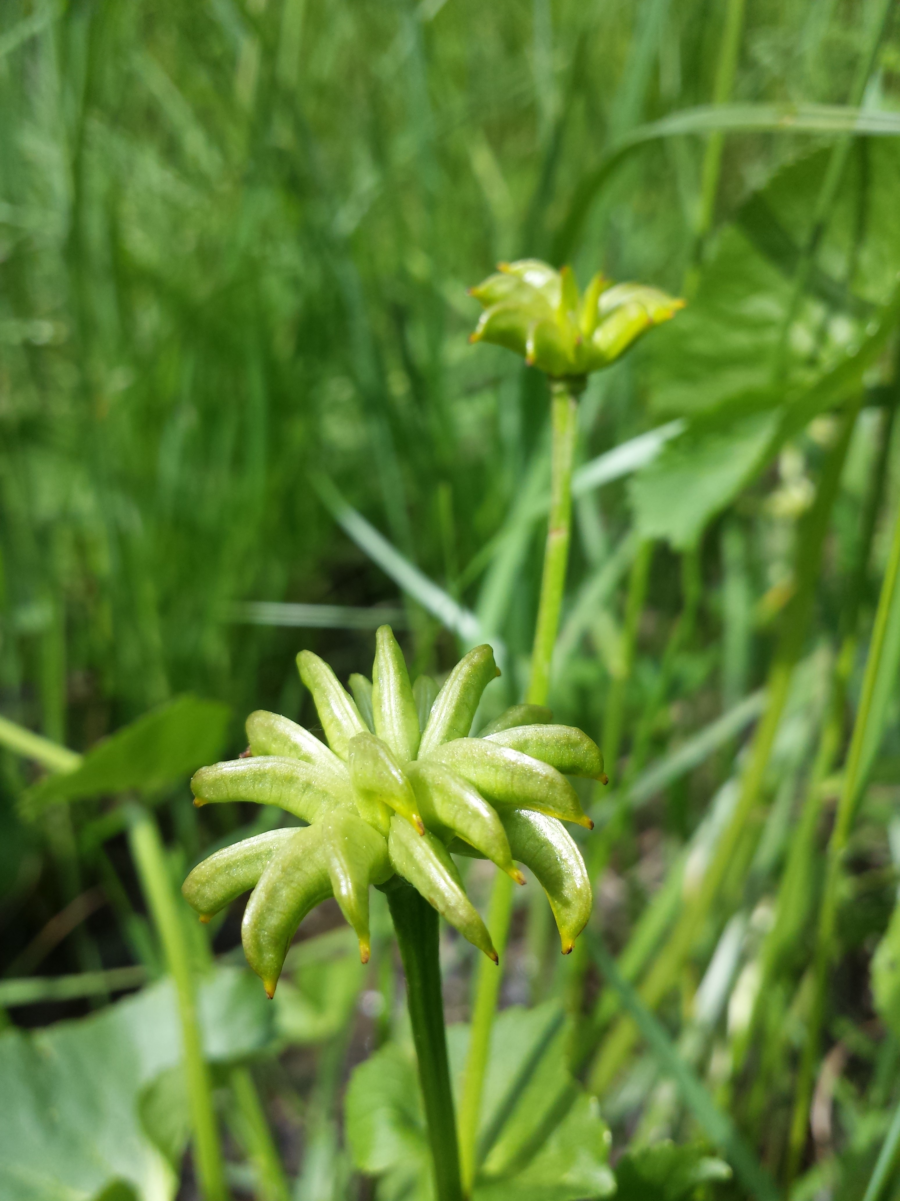 Habitus fruiting Taxonym: Caltha palustris ss Fischer et al. EfÖLS 2008 ISBN 978-3-85474-187-9 Location: next to Pfaffenholz near Niederhollabrunn, district Korneuburg, Lower Austria - ca. 300 m a.s.l. Habitat: brookside